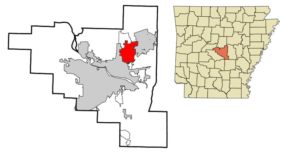 This map shows the incorporated and unincorporated areas in Pulaski County, Arkansas, highlighting Sherwood in red, after 2008 Gravel Ridge annexation.